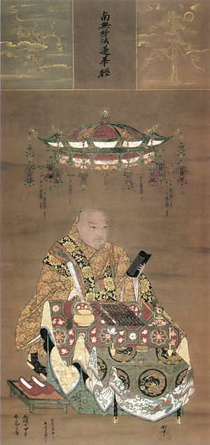 Nichiren, by Hasegawa Tōhaku, Daihoji, Takaoka, Toyama, Japan